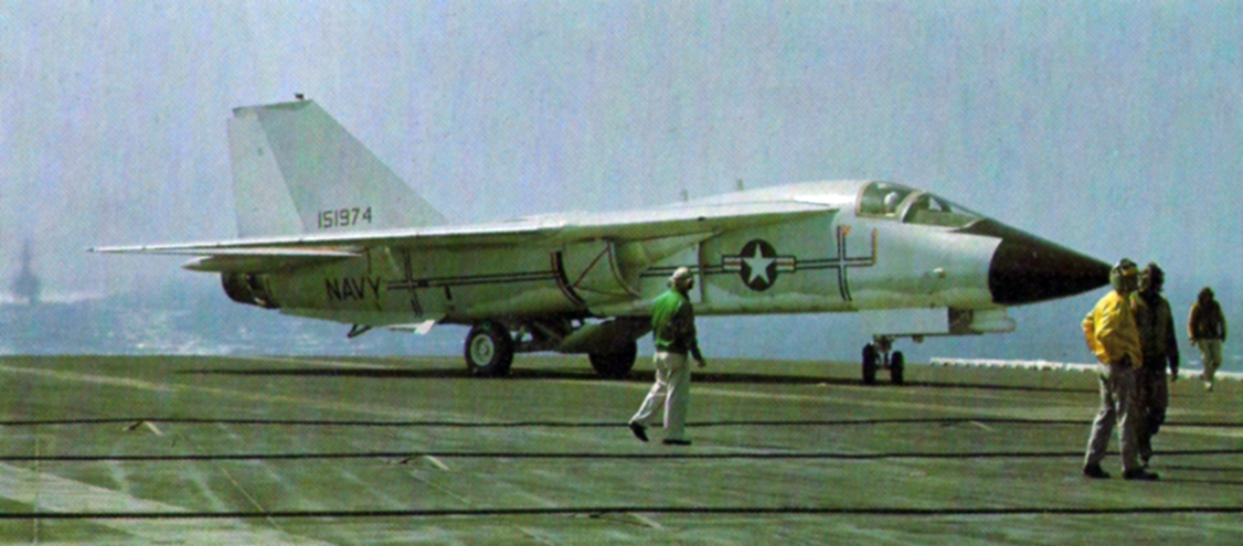 A General Dynamics F-111B (BuNo 151974) on the aircraft carrier USS Coral Sea (CVA-43) on 23 July 1968. It was the only F-111B to perform carrier operations after completing arrestor proving tests at the Naval Air Test Center Patuxent River, Maryland (USA), in February 1968. It crash landed at NAS Point Mugu, California (USA), on 11 October 1968 and was subsequently scrapped.